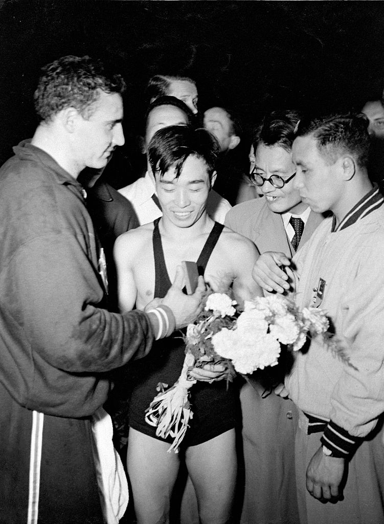 Silver medalist Yushu Kitano of Japan is congratulated after the Wrestling Freestyle Flyweight during the Helsinki Summer Olympic Games at the Messuhalli on July 23, 1952 in Helsinki, Finland.